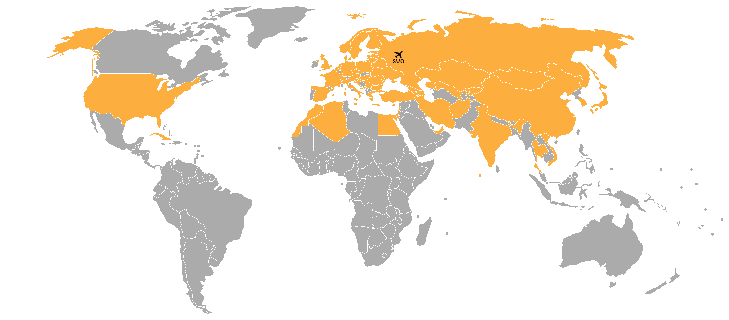 A map of countries served as destinations of flights from Sheremetyevo International Airport